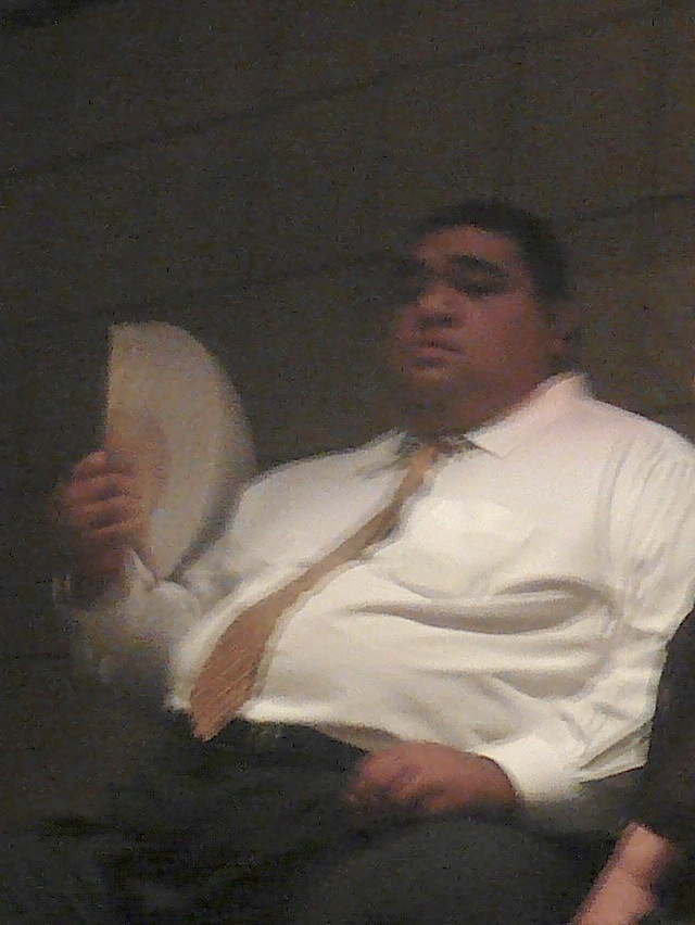 Musashimaru Koyo (武蔵丸 光洋 Musashimaru Kōyō, born May 2, 1971 as Fiamalu Penitani), is a former famous sumo wrestler.